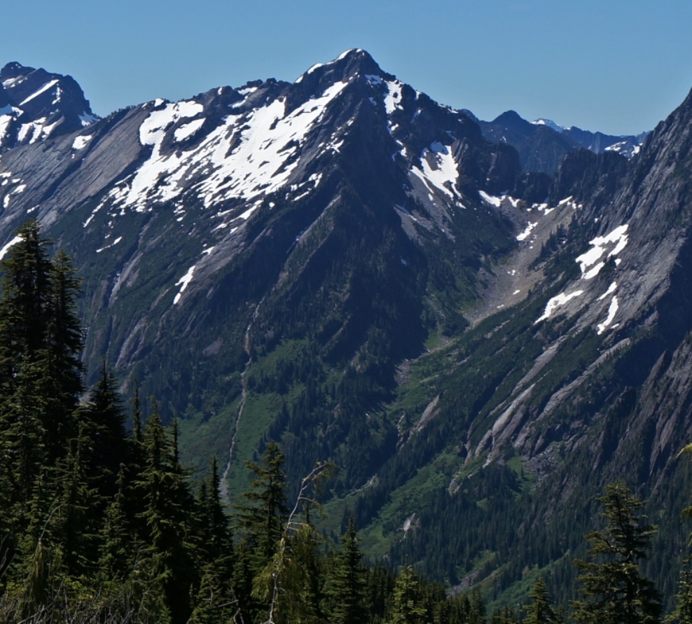 Morning Star Peak seen from Dickerman Mountain